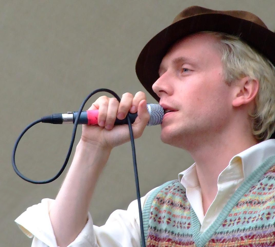 Ben Hudson of the band "Mr Hudson and the Library" singing at the Godiva Festival 2007 held in the War Memorial park, Coventry, England.